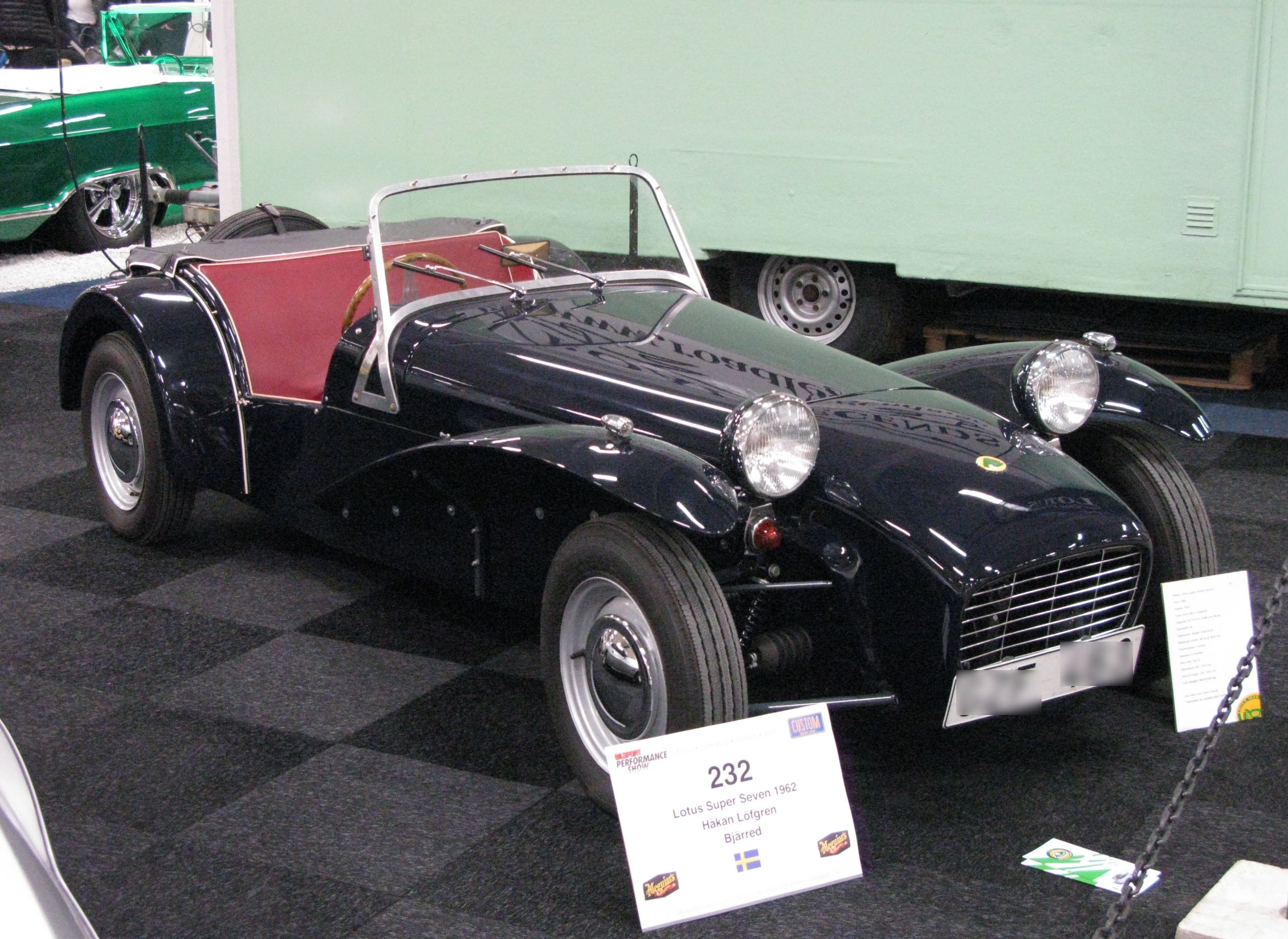 Location: Elmia Custom Motorshow, Jönköping, Sweden